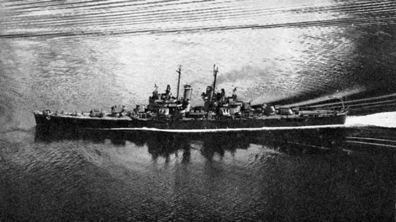 The U.S. Navy light cruiser USS Montpelier (CL-57) underway before her overhaul in late 1944.